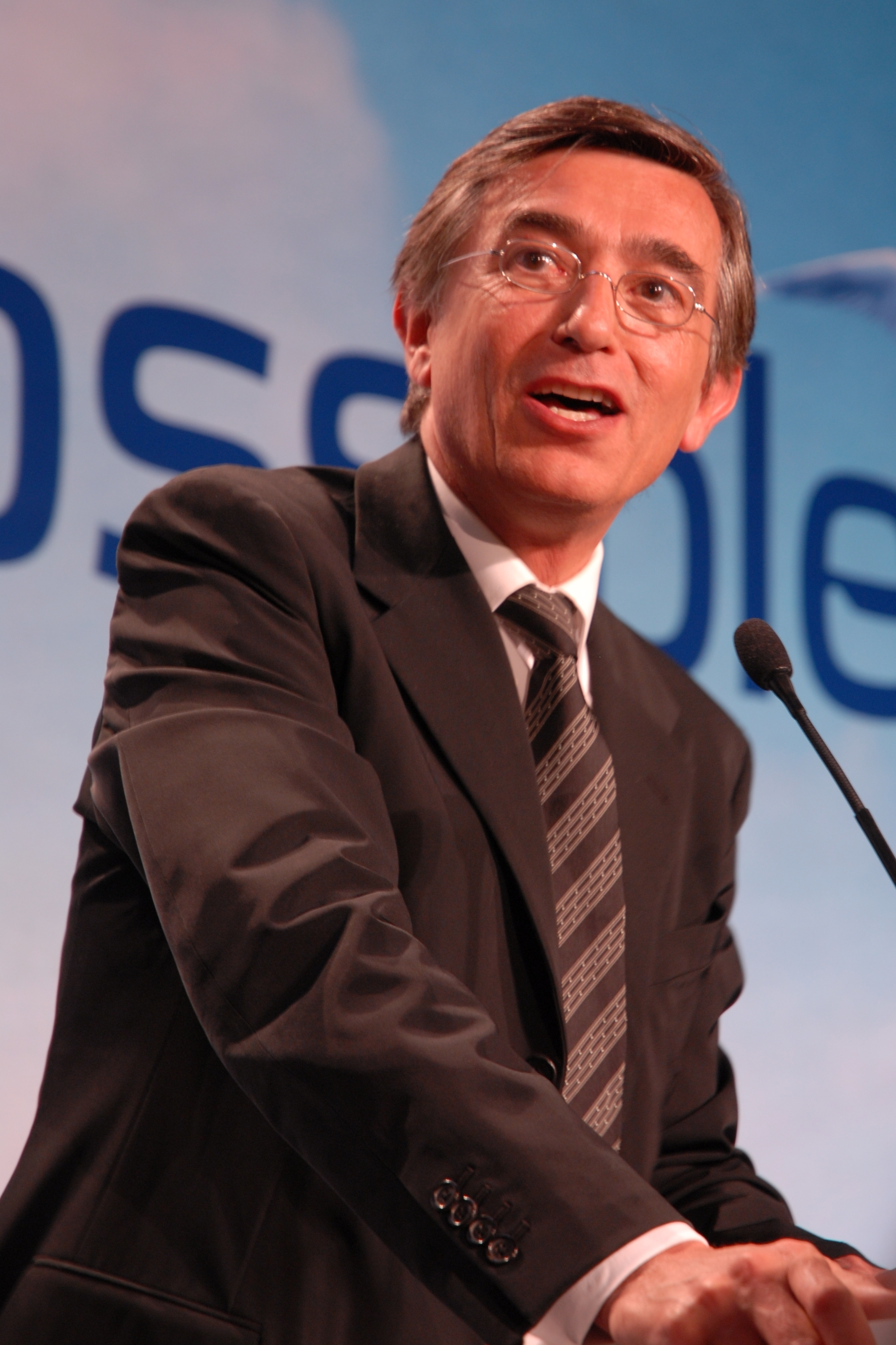 Philippe Douste-Blazy during Nicolas Sarkozy's meeting in Toulouse on April, 12th 2007 for the 2007 presidential election.